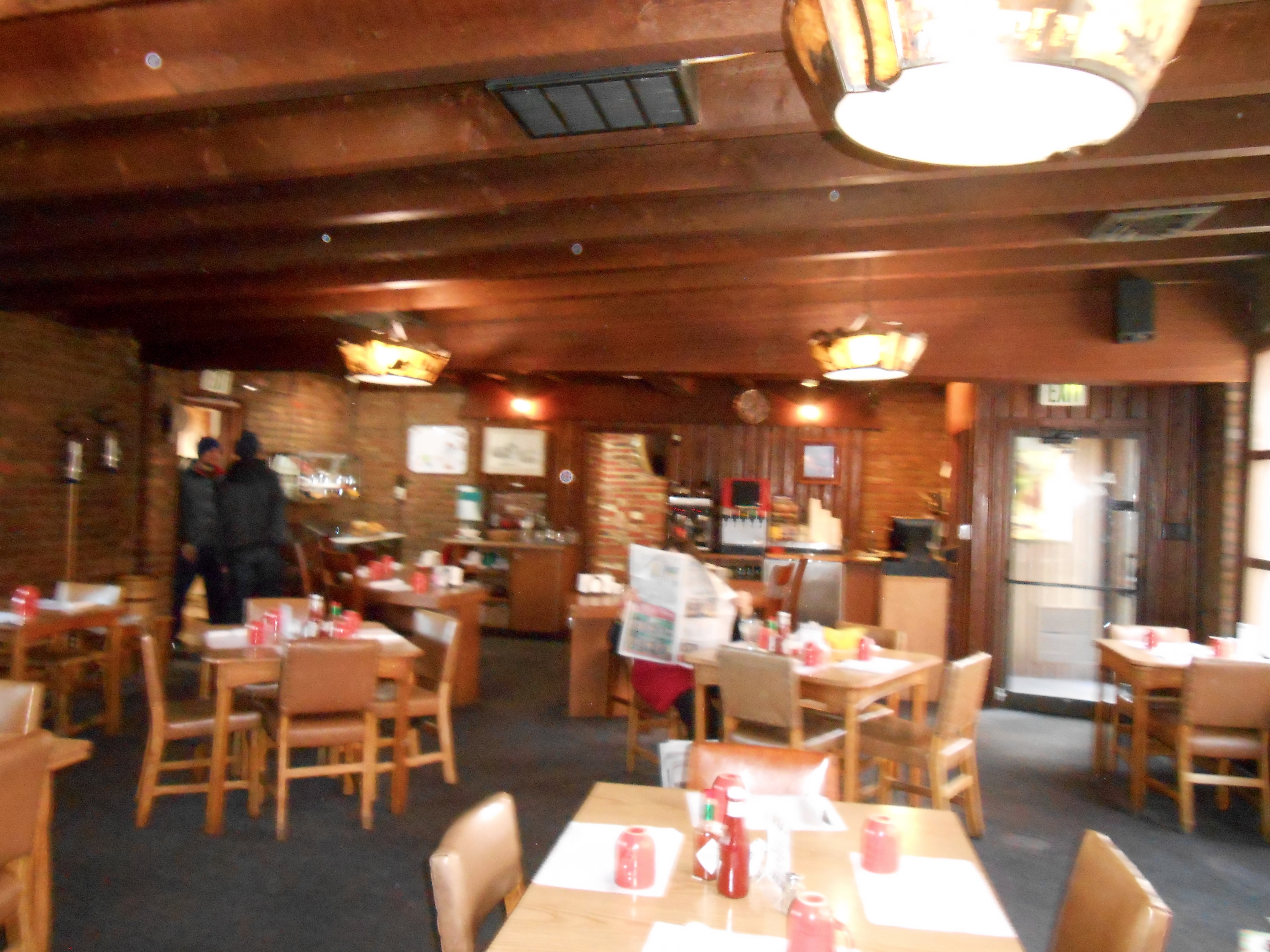 Interior of the Stirrup Restaurant at The Dude Rancher Lodge in Billings, Montana. Facility is on the National Register of Historic Places